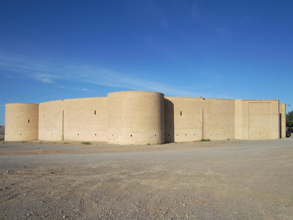 Zeinodin Caravanserai, Iran on the Silk Road to China.